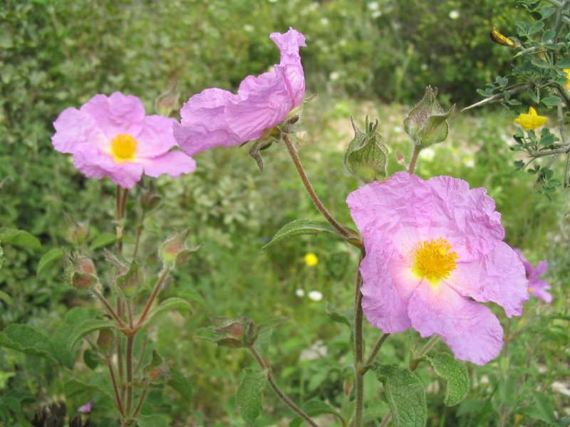 Cistus creticus - image taken on 30 March 2004, on the slopes of Mount Carmel, Israel.